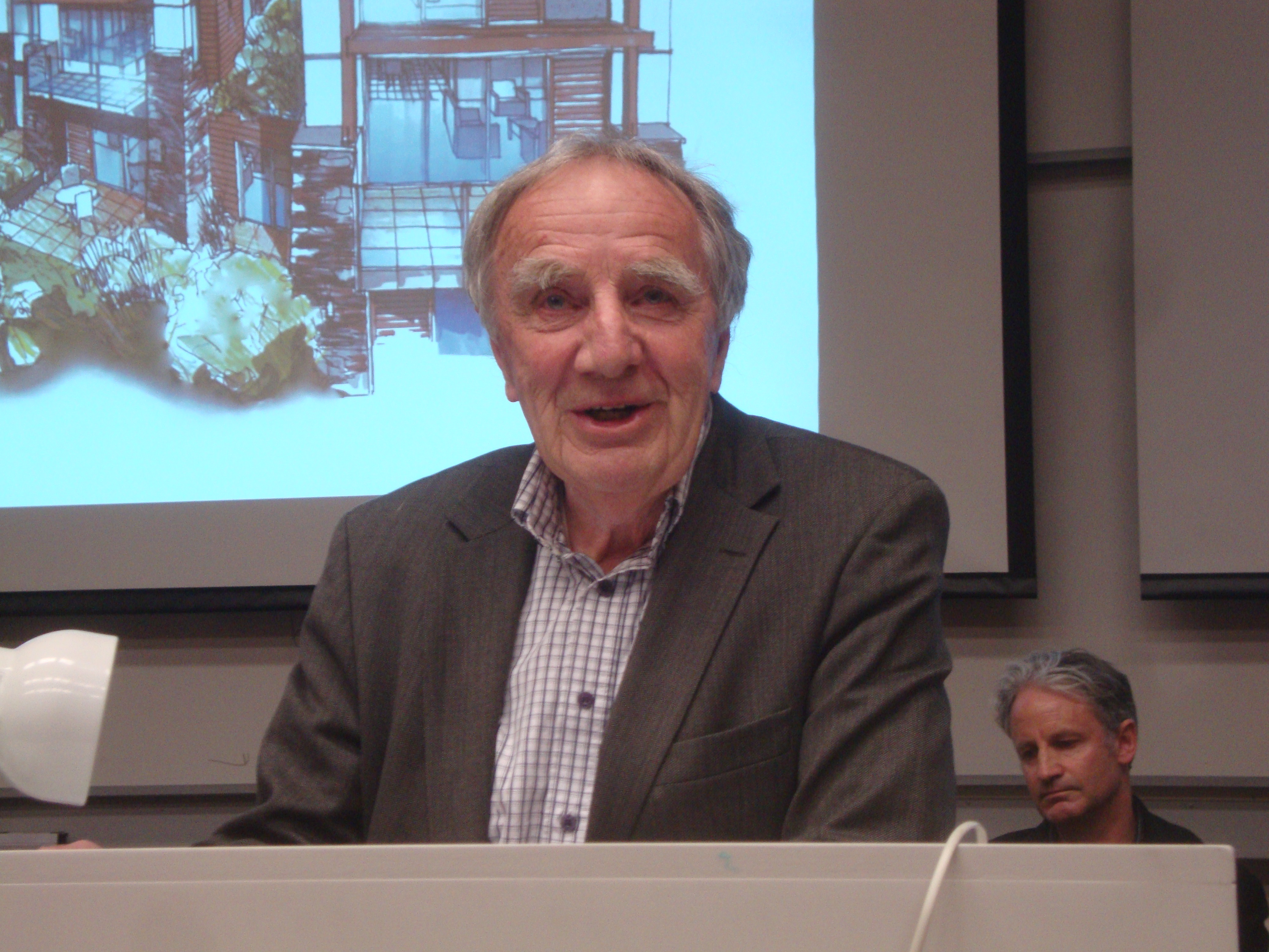 Sir Miles Warren giving a lecture in September 2011, with architect Richard Dalman in the background.